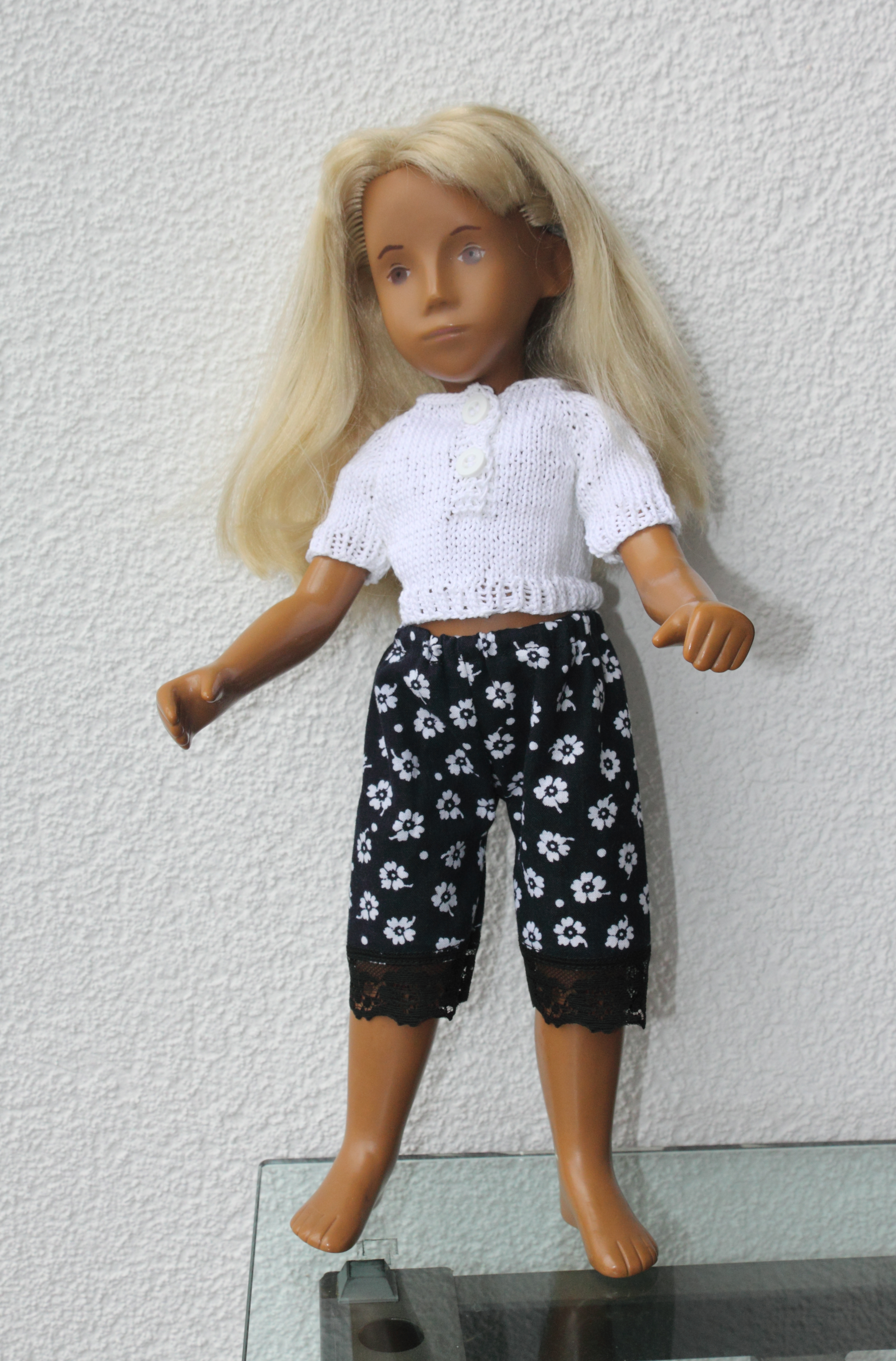 Sasha doll, designed by Sasha Morgenthaler, Switzerland. This doll was produced by Goetz, No Navel series, around 1970.